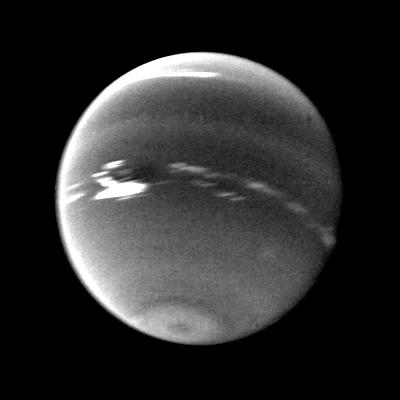 This photo was taken by Voyager 2's wide-angle camera. Light at methane wavelengths is mostly absorbed in the deeper atmosphere. The bright, white feature is a high-altitude cloud just south of the Great Dark Spot. Other, smaller clouds associated with the Great Dark Spot are white, and are also at high altitudes.